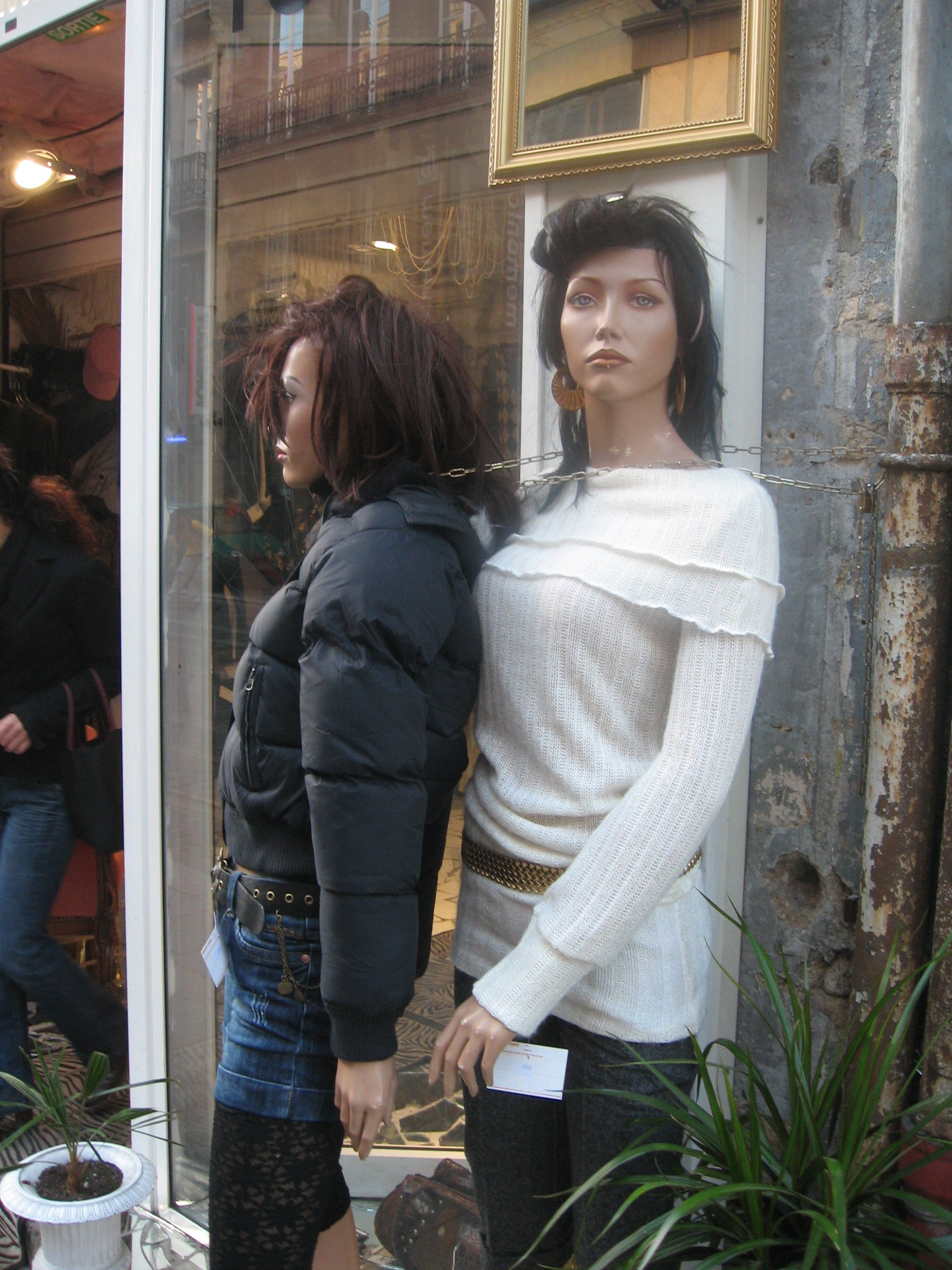 Mannequins bound with a chain